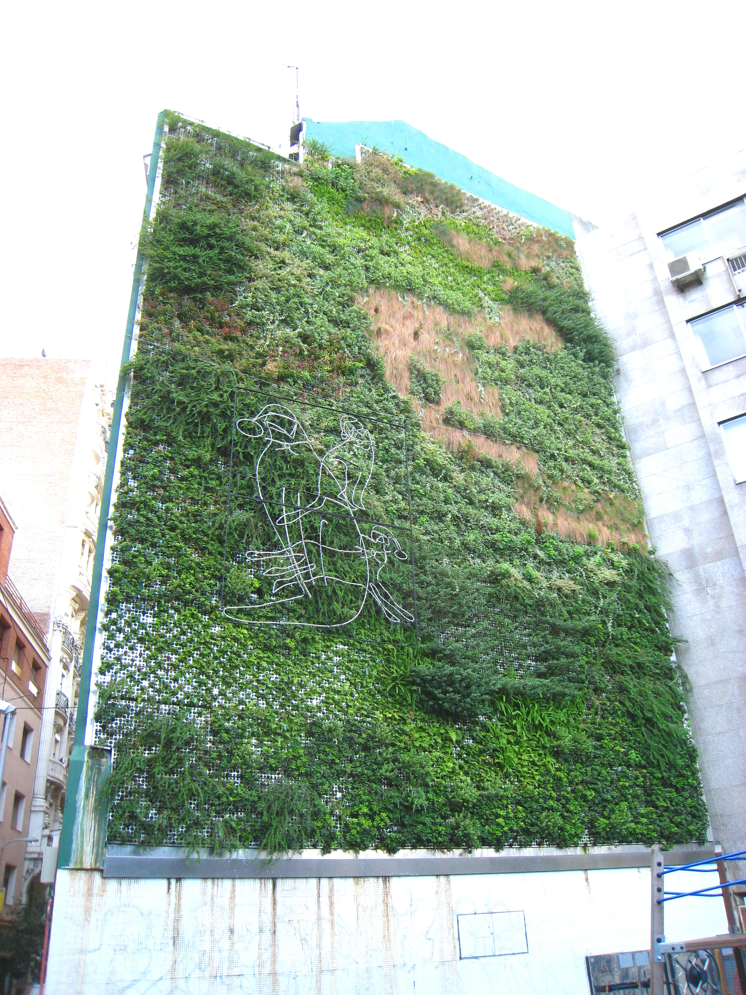 Miscellaneous facades in Madrid, Spain - Green wall. I took this photograph.